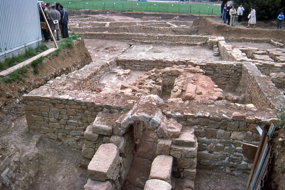 Excavated remains of the 'grand four' for firing samian ware at La Graufesenque, near Millau, France. 1st-2nd century AD. Photographed at La Graufesenque in May 1980.